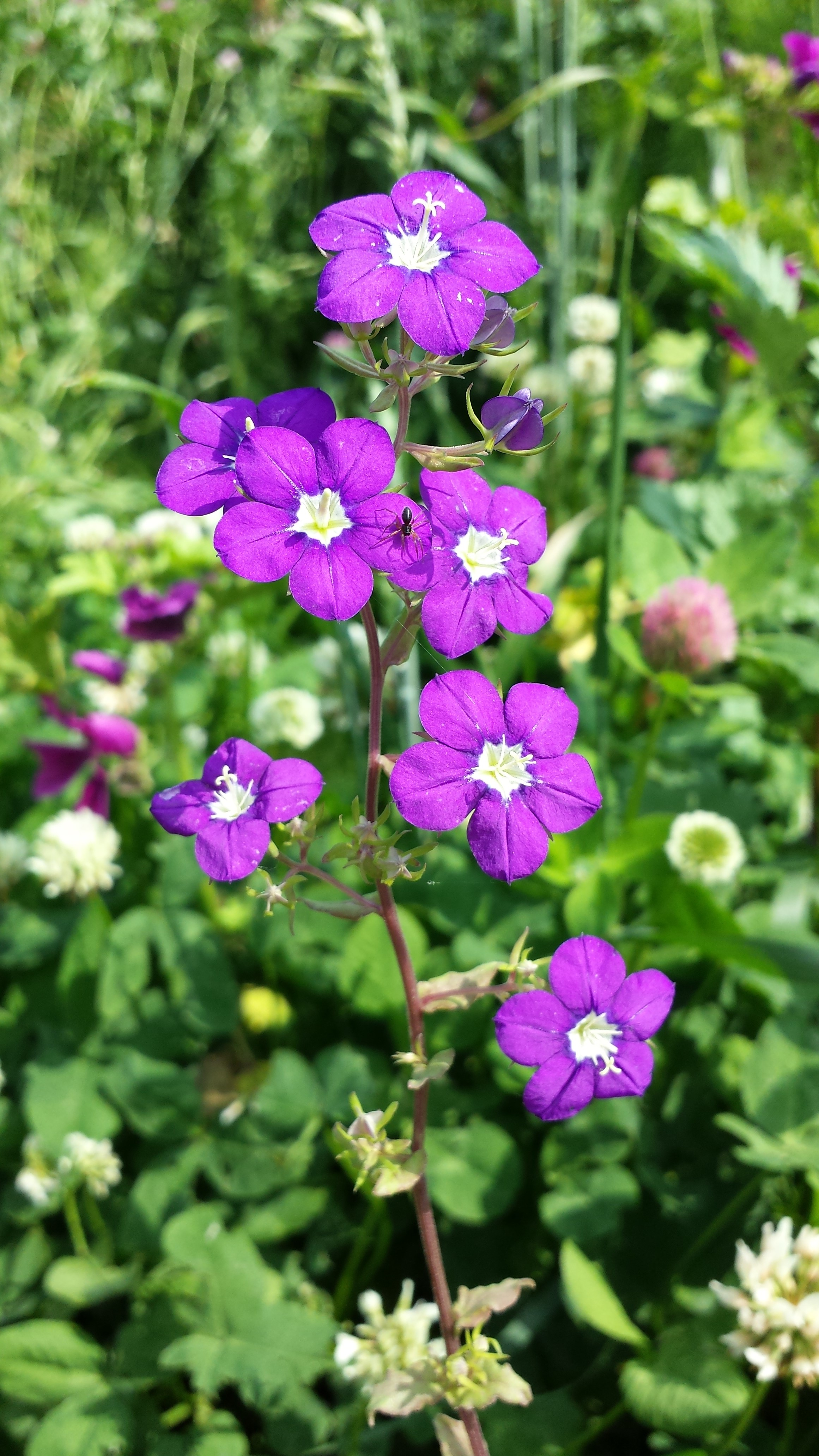 Habitus Taxon: Legousia speculum-veneris (sensu Fischer et al. EfÖLS 2008; det. M. A. Fischer 2013-06-08) Location: Gramatneusiedl, district Wien-Umgebung, Lower Austria - ca. 175 m a.s.l. Habitat: meadows/fallow